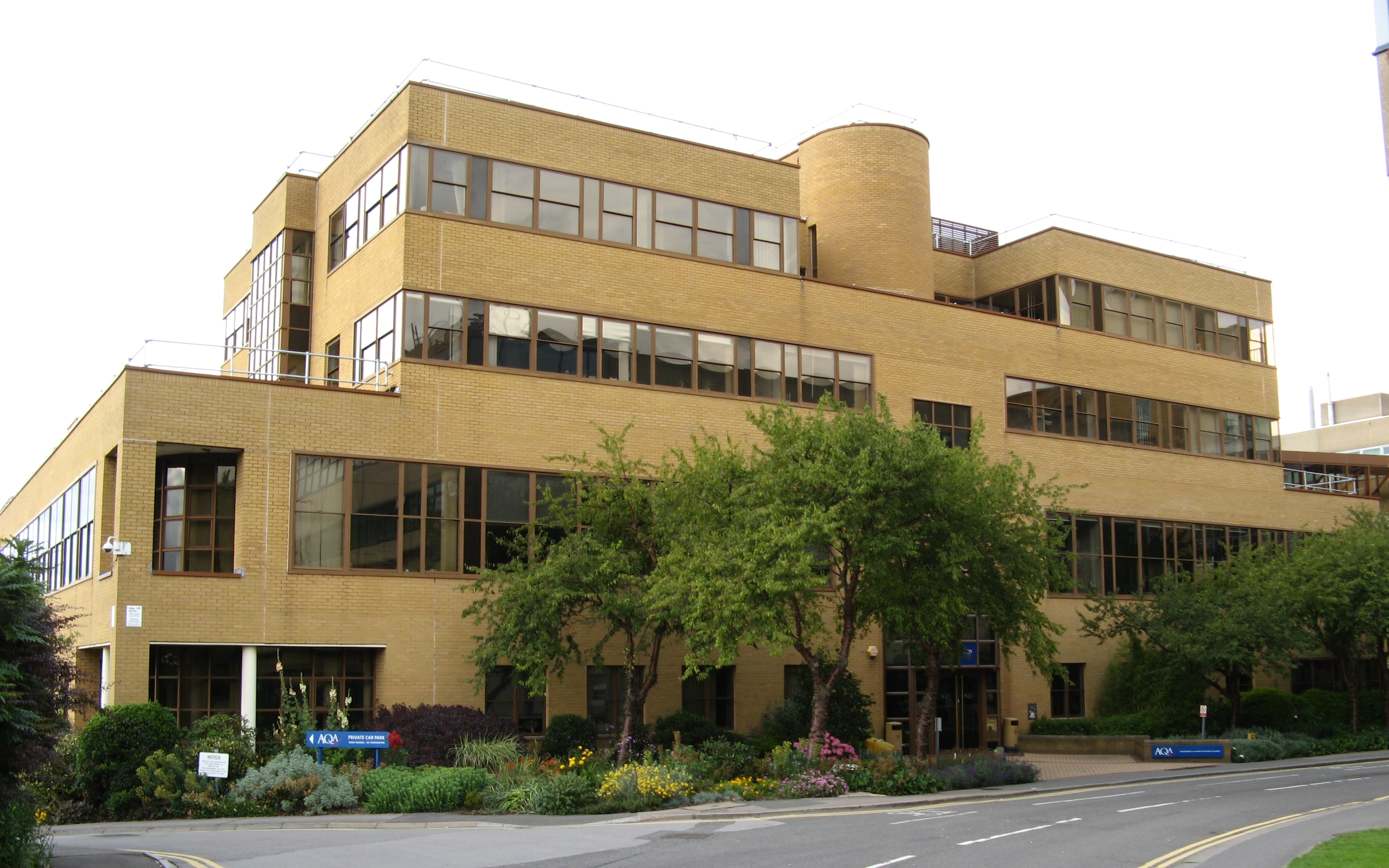 AQA office, Guildford, on the University of Surrey campus.